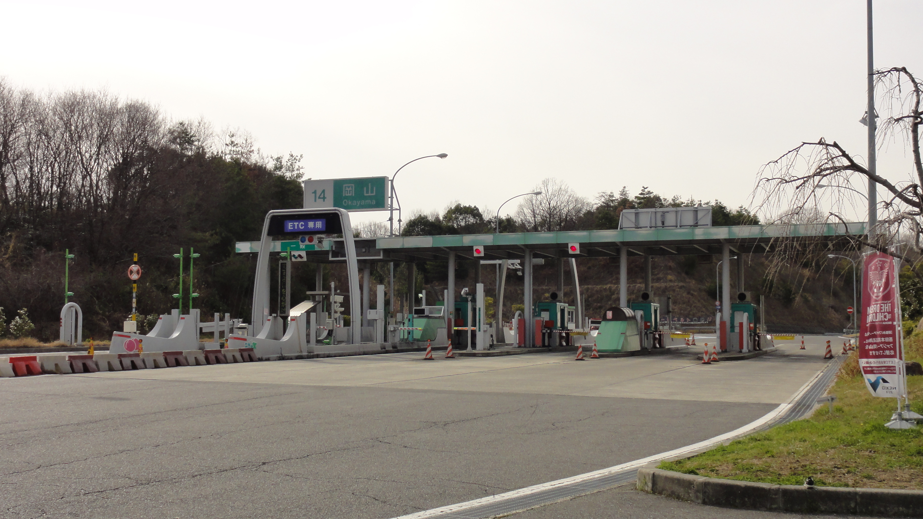 Okayama Inter Change,Okayama Prefecture, Japan